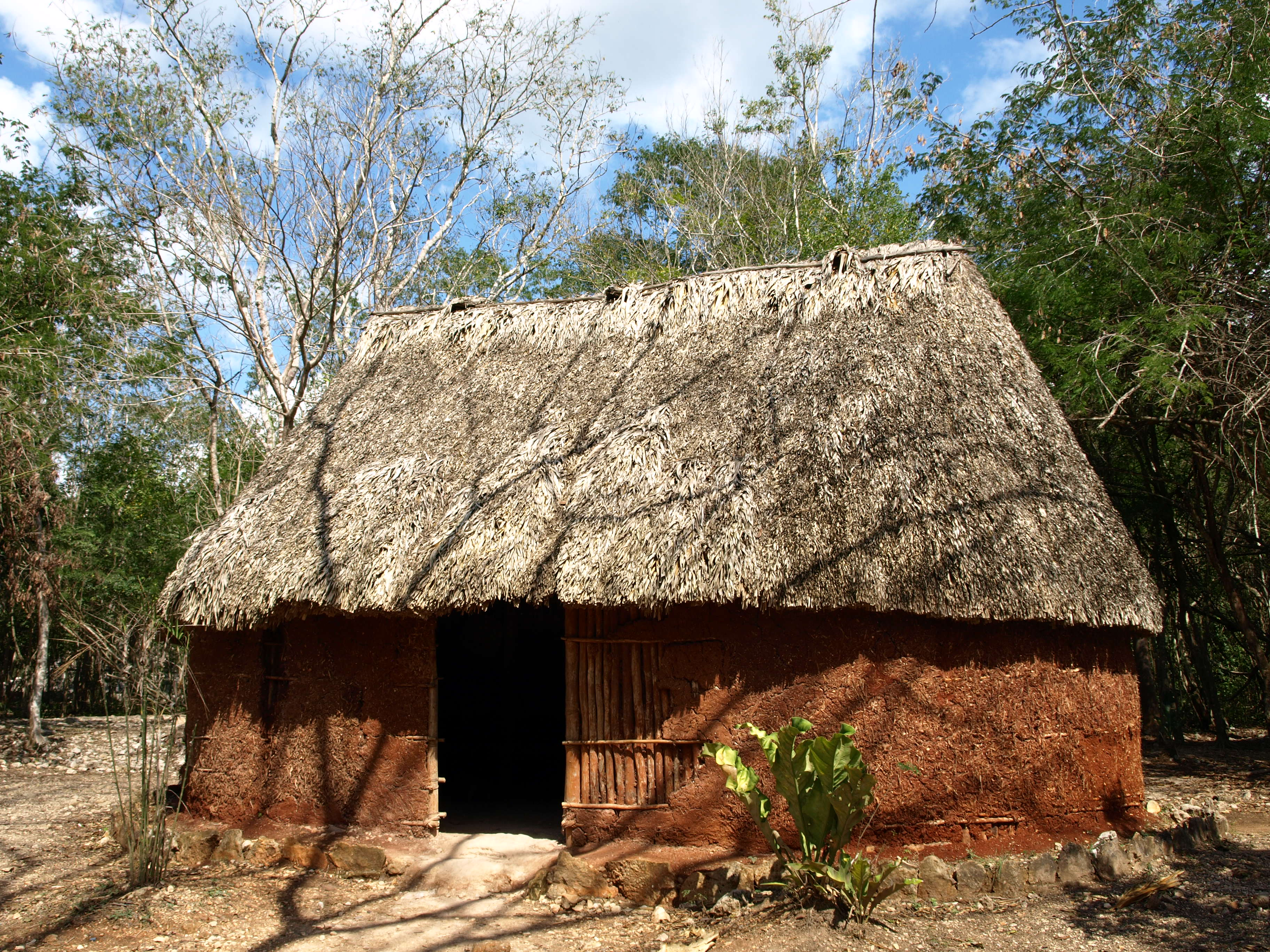 traditional Maya House. Model at Chichen Itza. Some traditional Maya houses are still much the ssae, other than occasional augmentation with modern materials - for example a strip of galvanized metal along the peak of the roof makes the thatch joint easier to keep water tight.